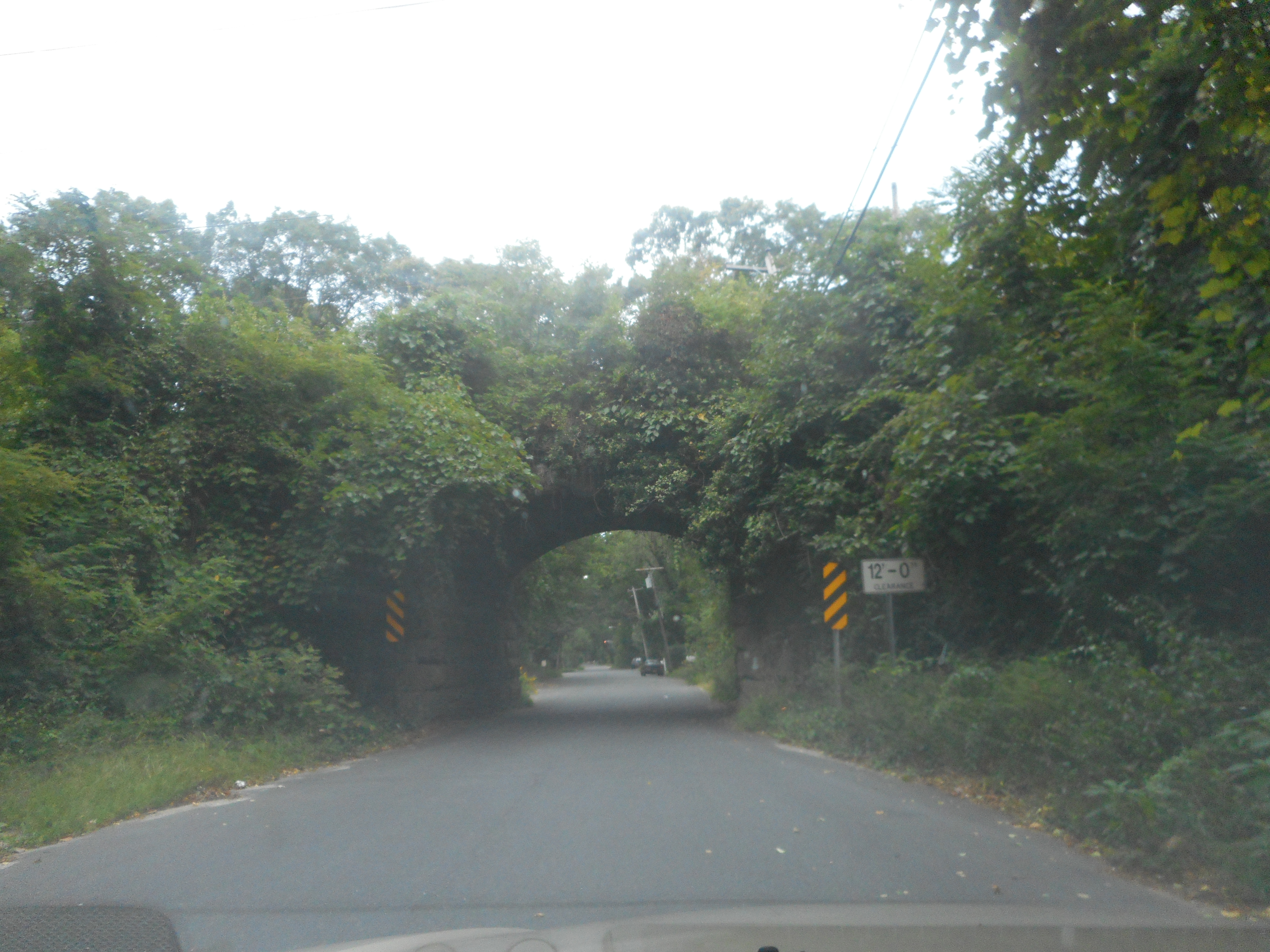 The one-lane bridge over Woodville Road in Shoreham, New York that used to carry the Long Island Rail Road Wading River Branch.